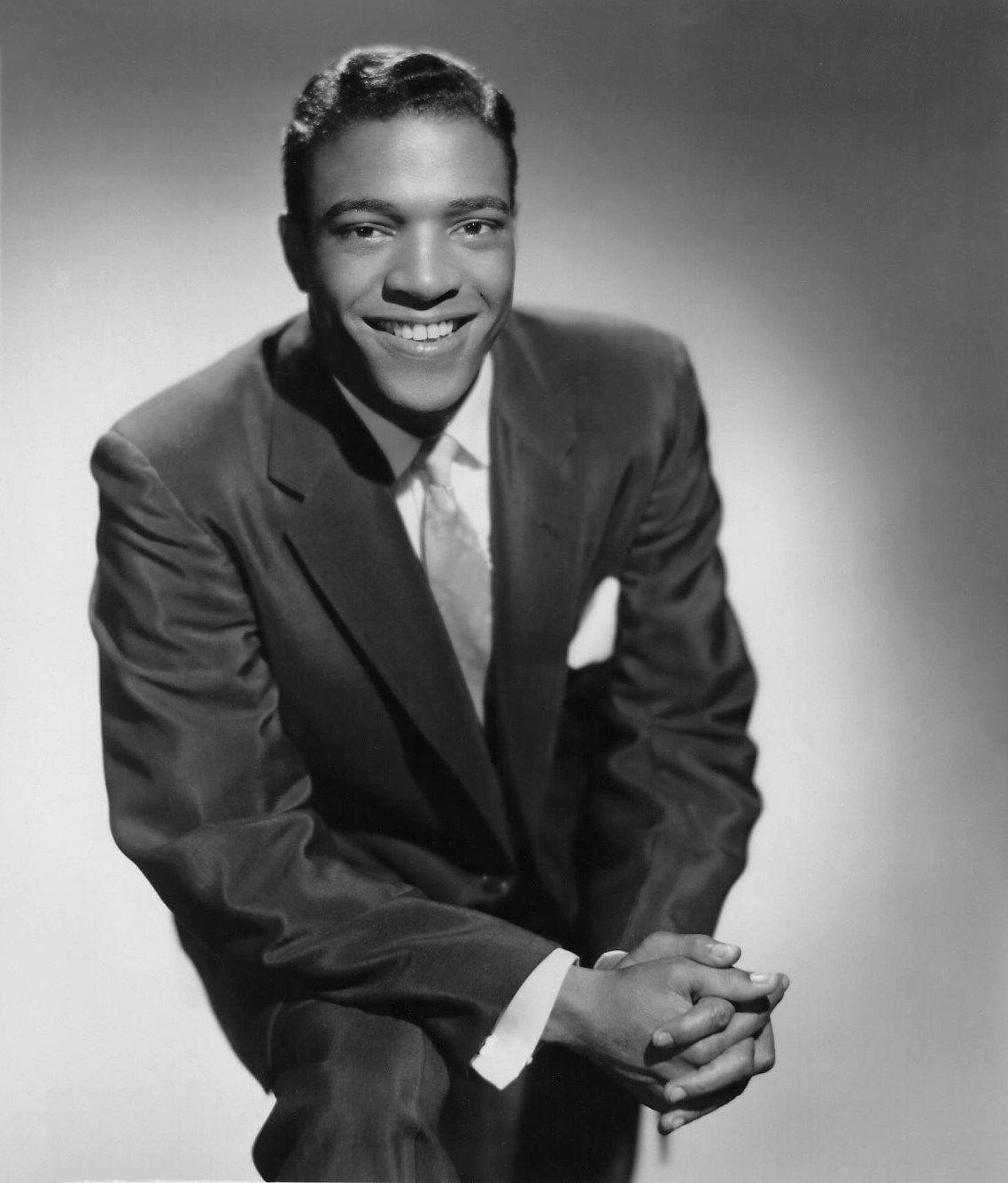 Photo of Clyde McPhatter.